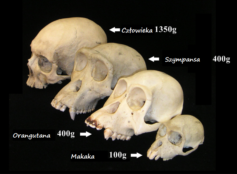 Primate skulls provided courtesy of the Museum of Comparative Zoology, Harvard University.